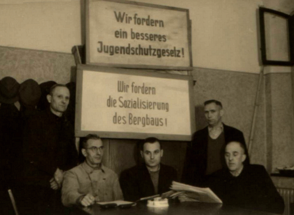 representatives of the Mansfeld works council 1951; chairman Günther r.b.